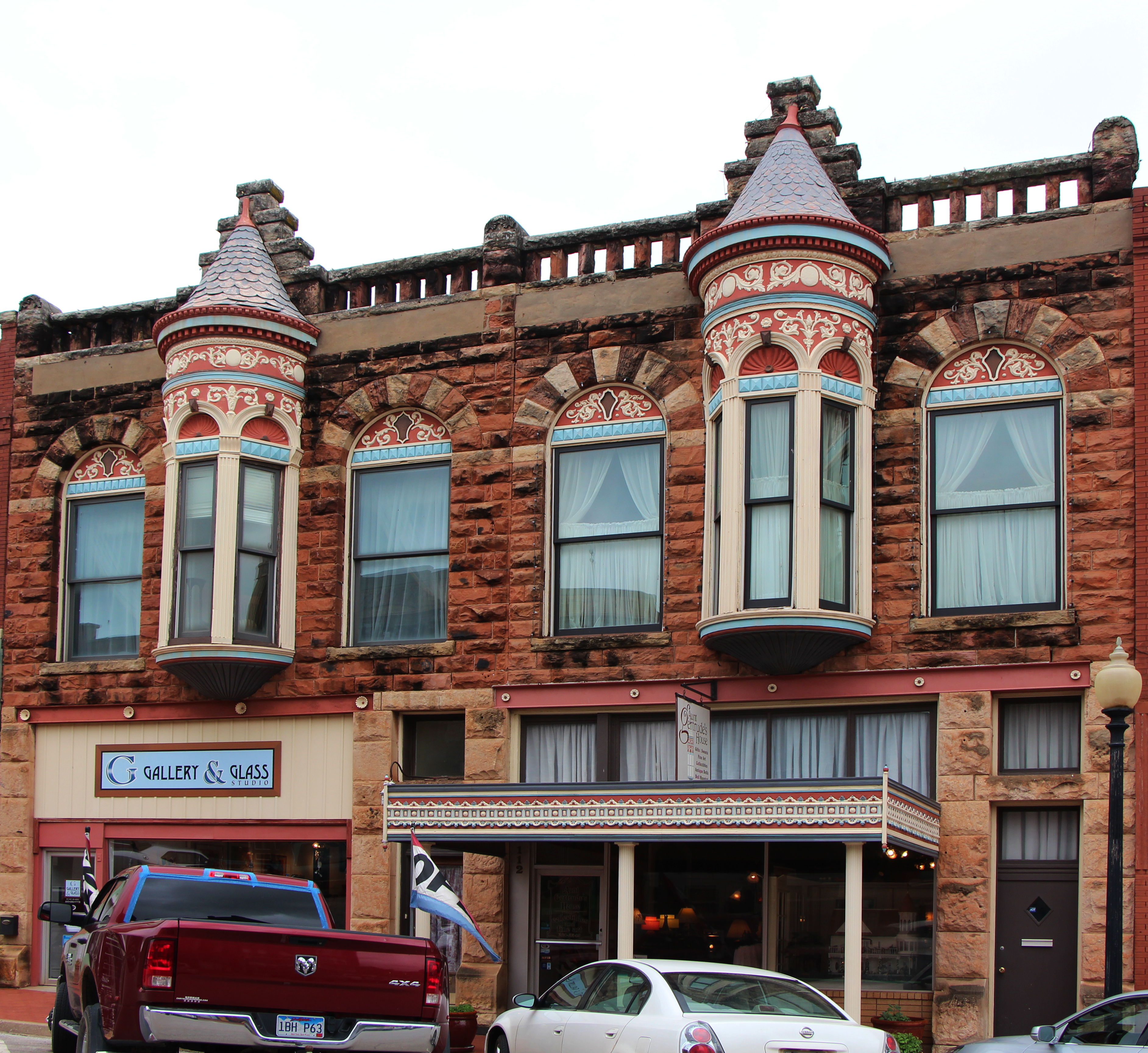 DeSteiguer Block, Guthrie, Oklahoma